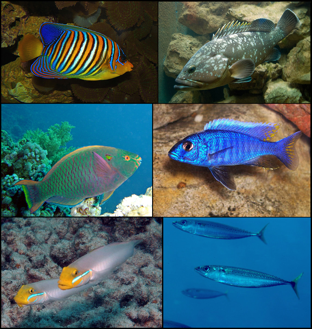 Perciformes